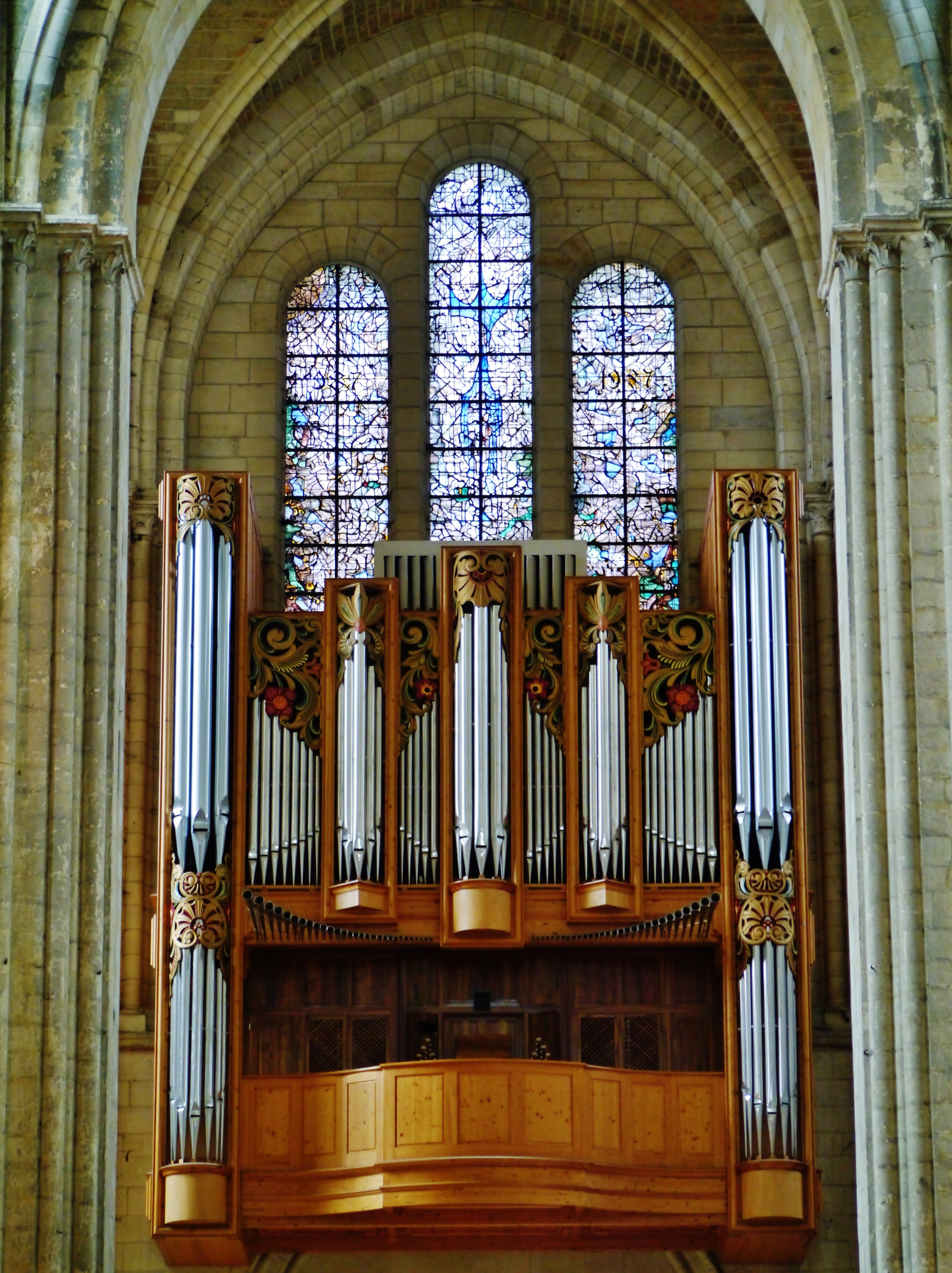 Organ & West Window of the Cathedral of Our Lady, Noyon, Department of Oise, Region of Upper France (former Picardy), France